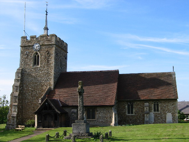 St. Ippolyts Church, Herts. Although this church dates back to the 11th century, most of it is 14th century. The name Ippolyts originates from St Hippolytus, a 3rd century martyr and doctor of horses. Apparently, sick horses were led into this village church in the hope of a miraculous cure.